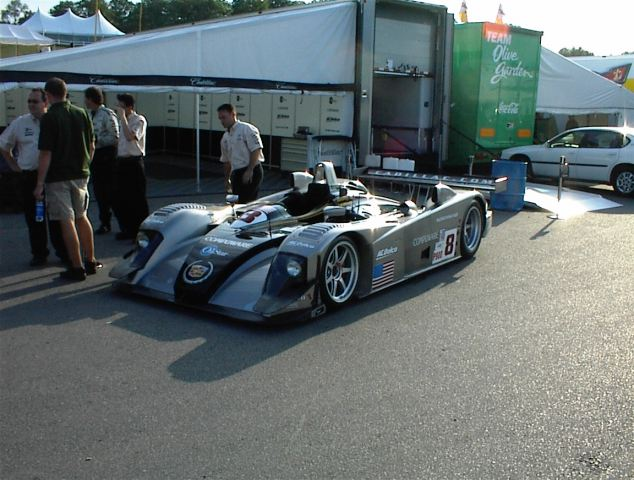 Team Cadillac's Northstart LMP02 at the 2002 Grand Prix of Mosport